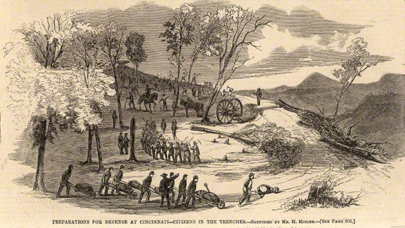 Preparations for Defense at Cincinnati Sketch by H. Mosler, Harper’s Weekly, September 20, 1862, p.597 Cincinnati History Library and Archives, Cincinnati Museum Center